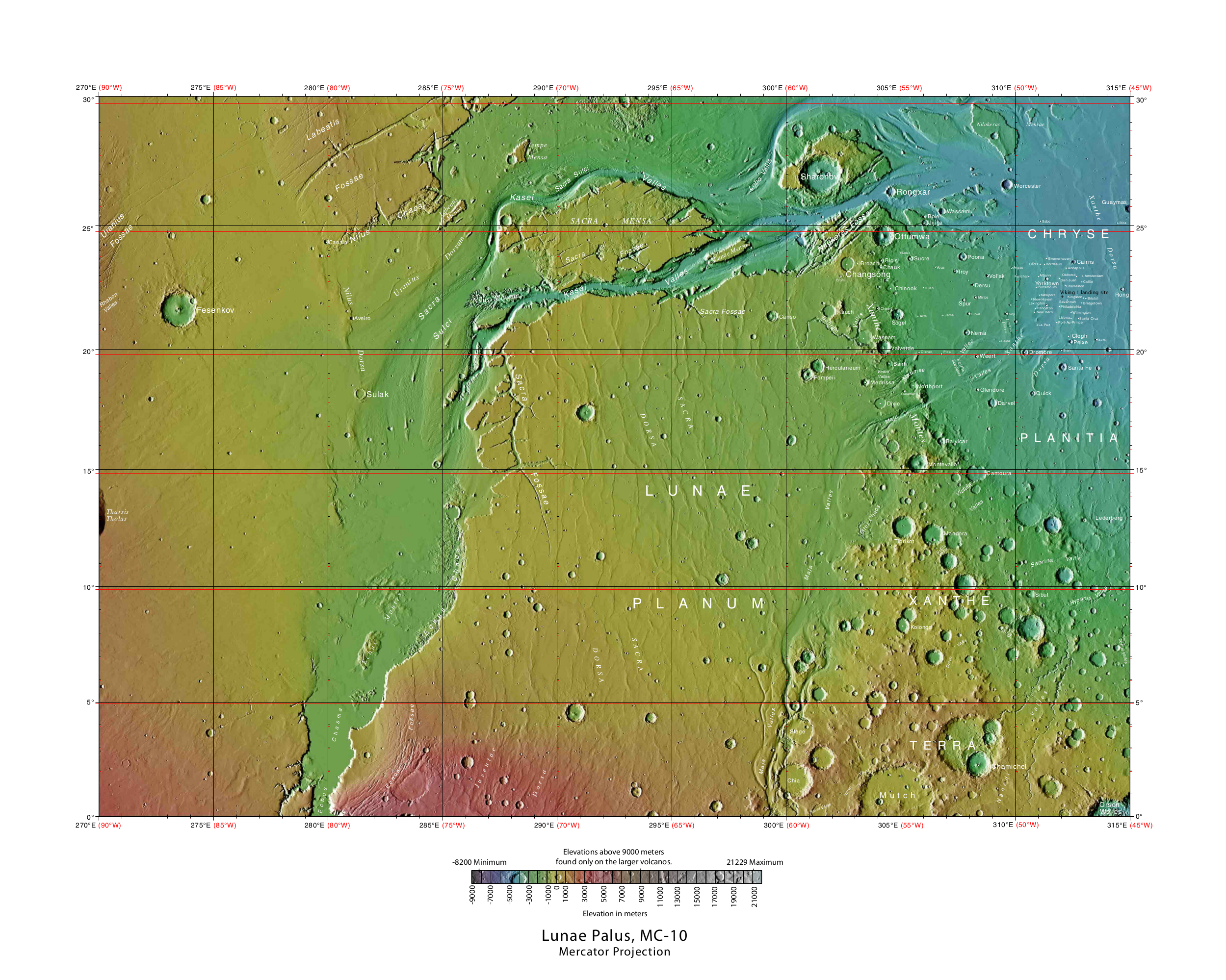 MOLA Topographic Map of Lunae Palus Quadrangle (MC-10) on the planet Mars. NOTE: Converted the original PDF file to a PNG File (via GIMP v2.8.4 program) - and uploaded to Wikimedia Commons.